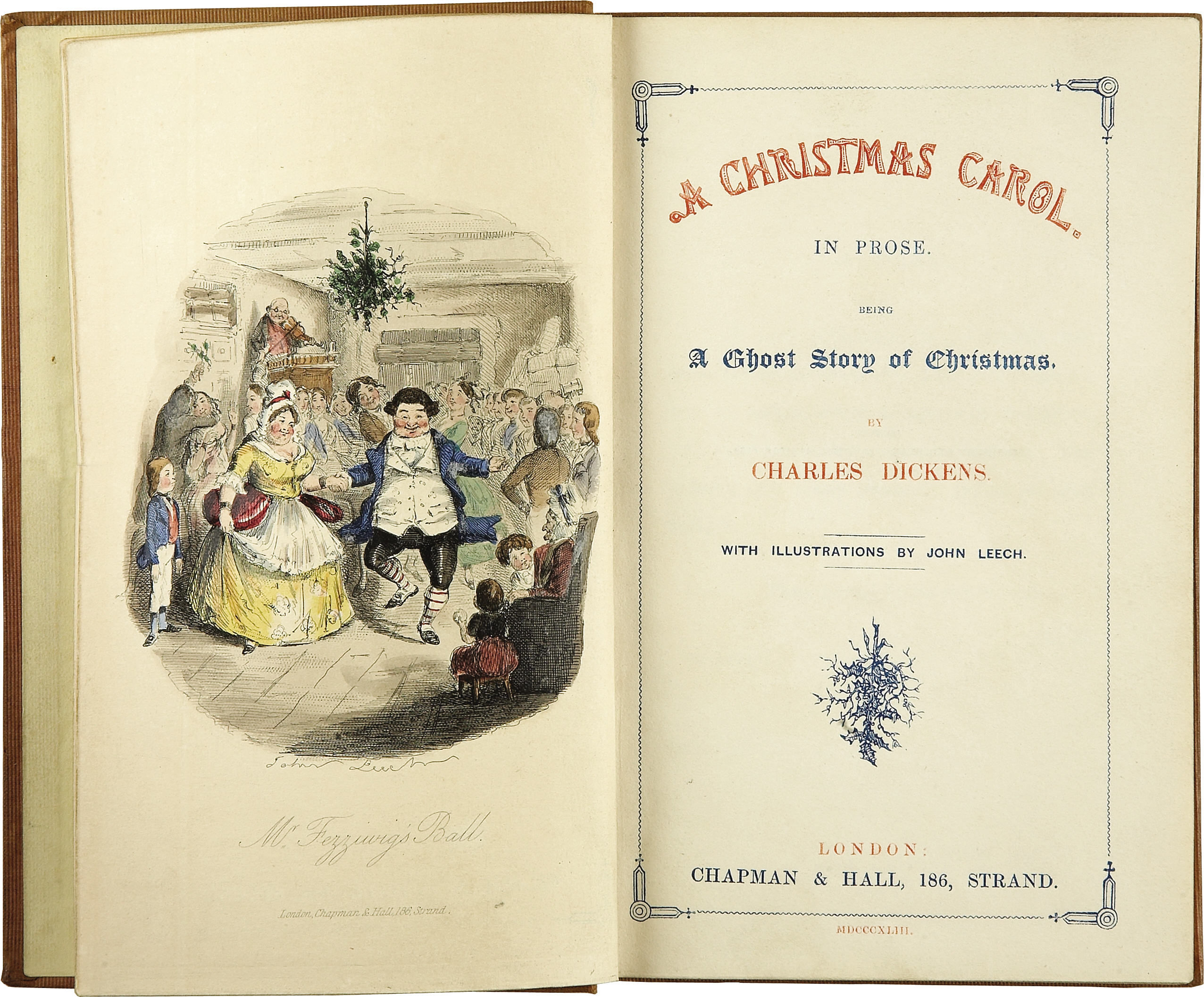 Charles Dickens: A Christmas Carol. In Prose. Being a Ghost Story of Christmas. With Illustrations by John Leech. London: Chapman & Hall, 1843. First edition. Title page.